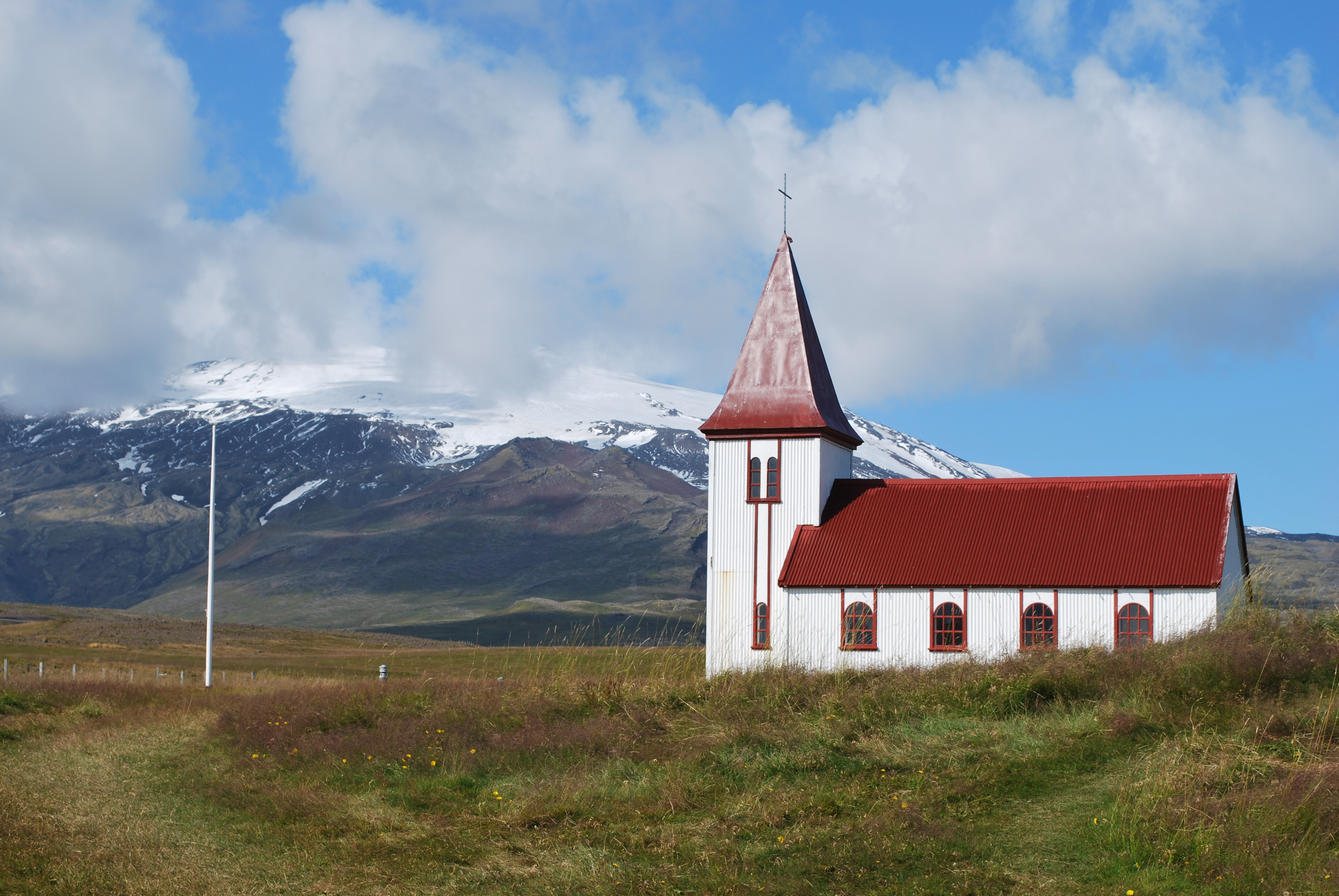 Church in Hellnar village with Snaefellsjökull volcano, Iceland